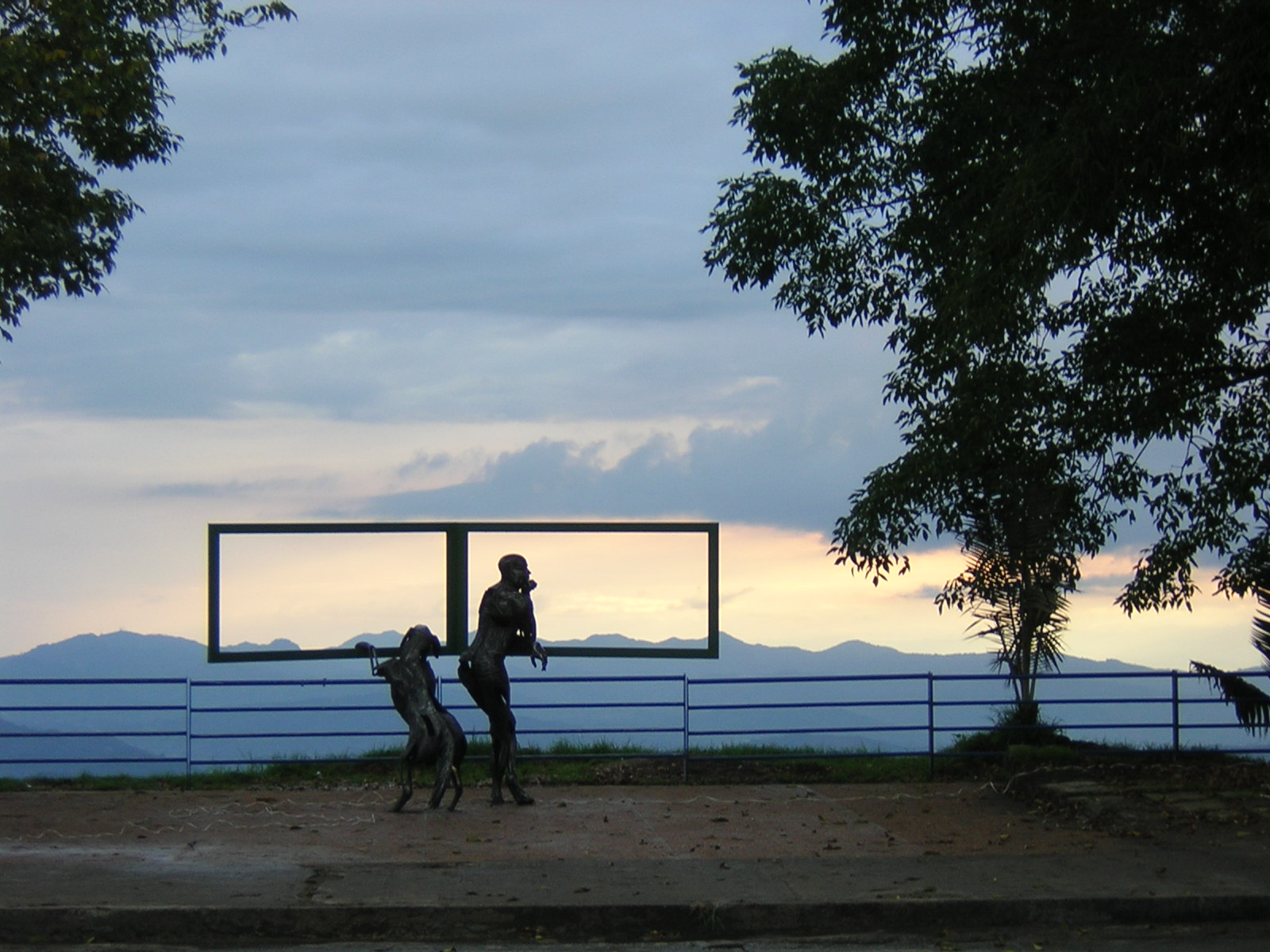 Landscape at Chipre. Manizales, Colombia